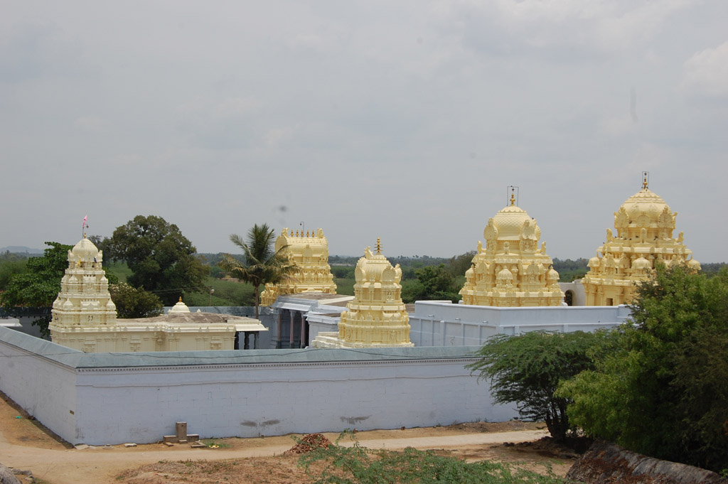 Karandai Digambar Jain Temple